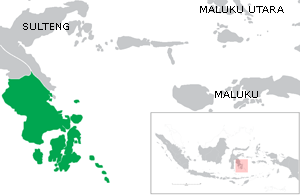 Location of Southeast Sulawesi Province on Sulawesi Island, Indonesia